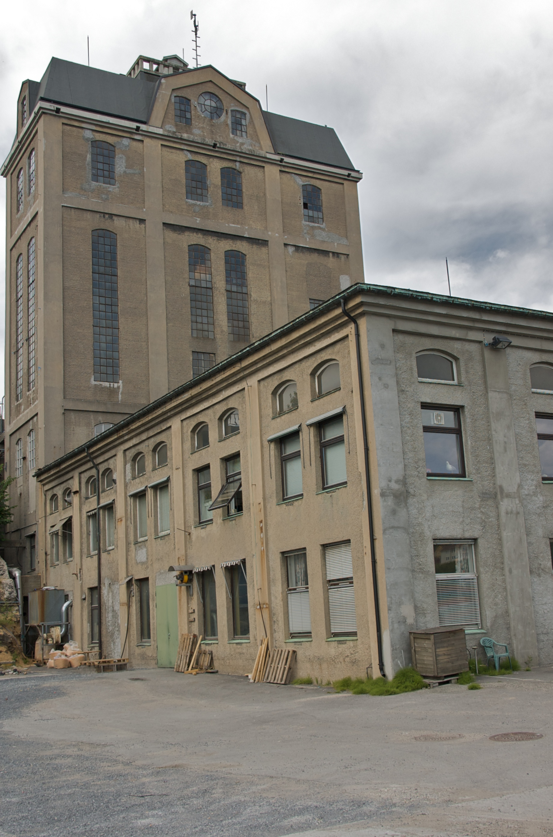 Old methanol plant in Skien, Norway.